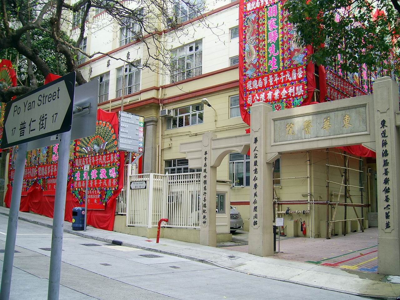 PoYanStreet in Hong Kong